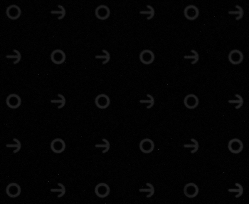 This image shows micropatterns of fluorescent fibronectin on glass surface.